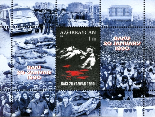 The tragedy of January 20